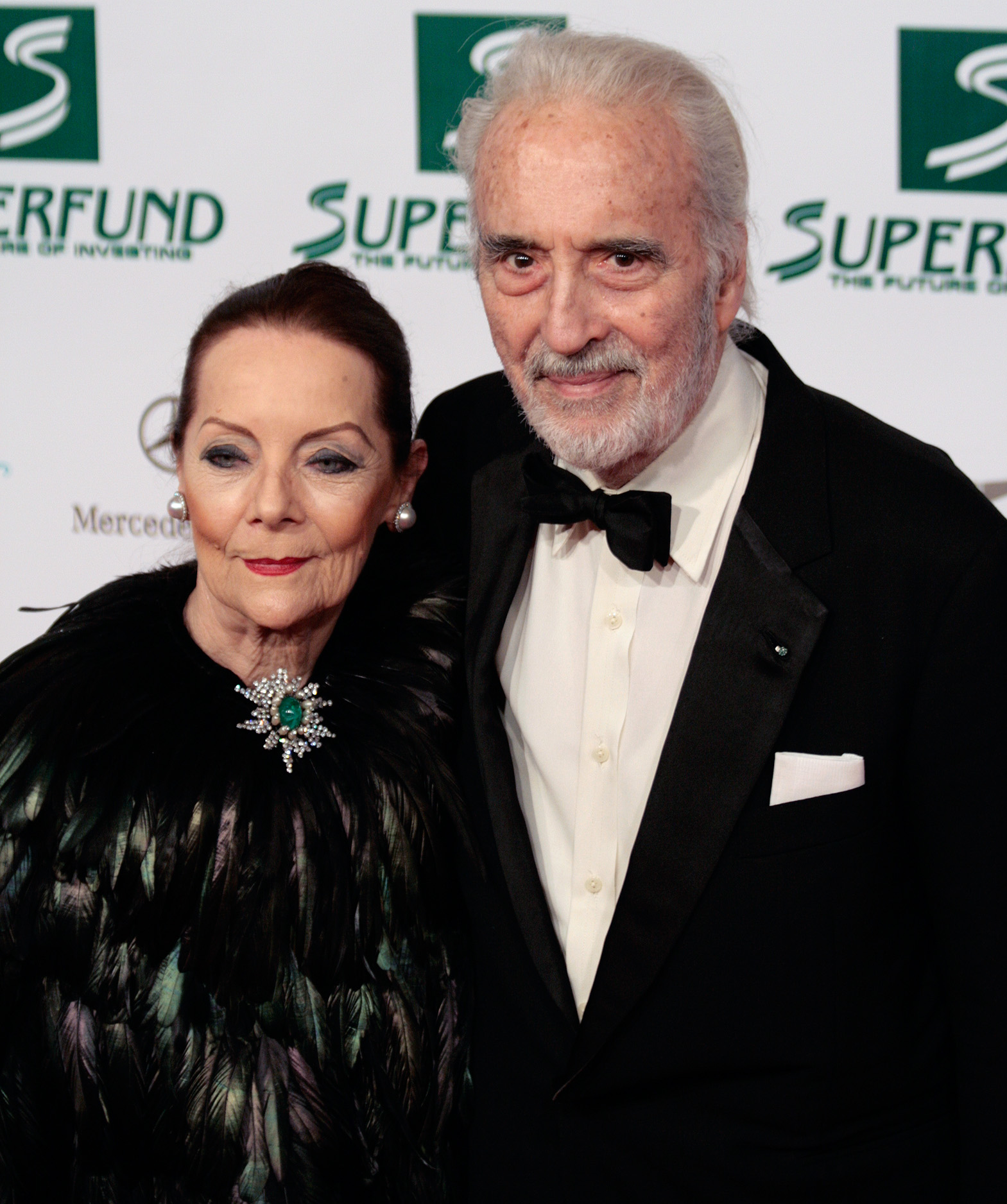 Christopher Lee and Birgit Kroencke at the Women's World Award 2009 (Wiener Stadthalle, Vienna, Austria).